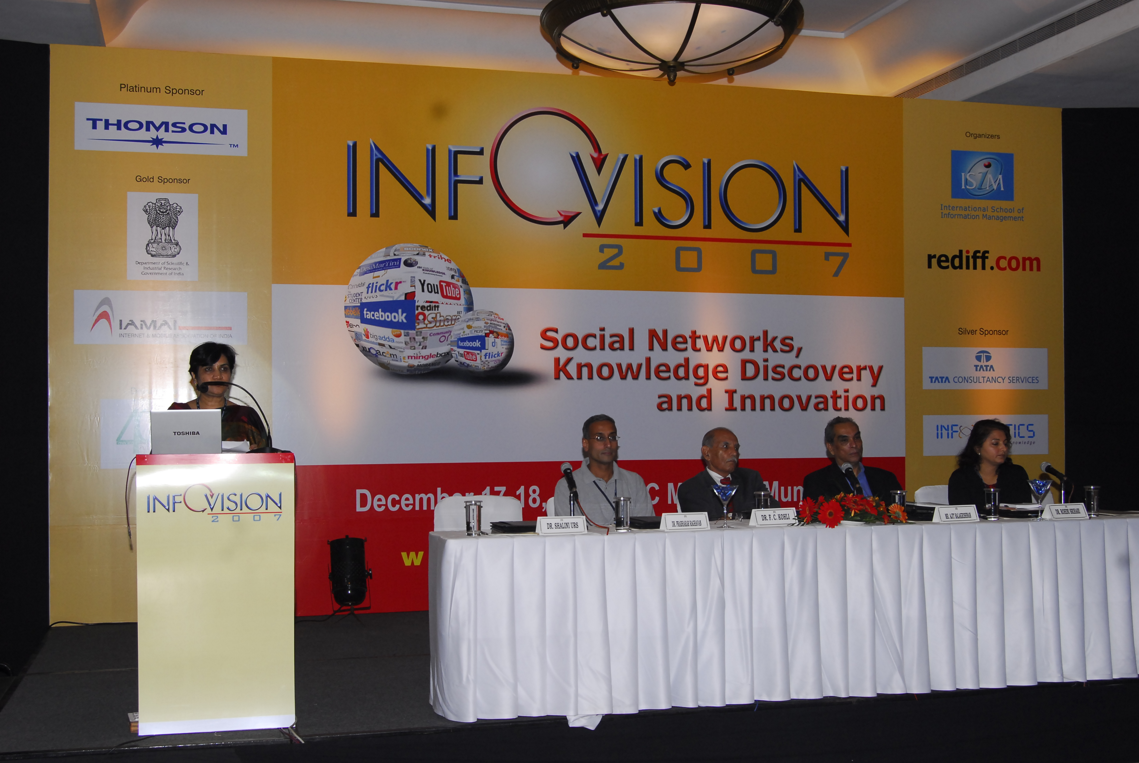 Infovision 2007